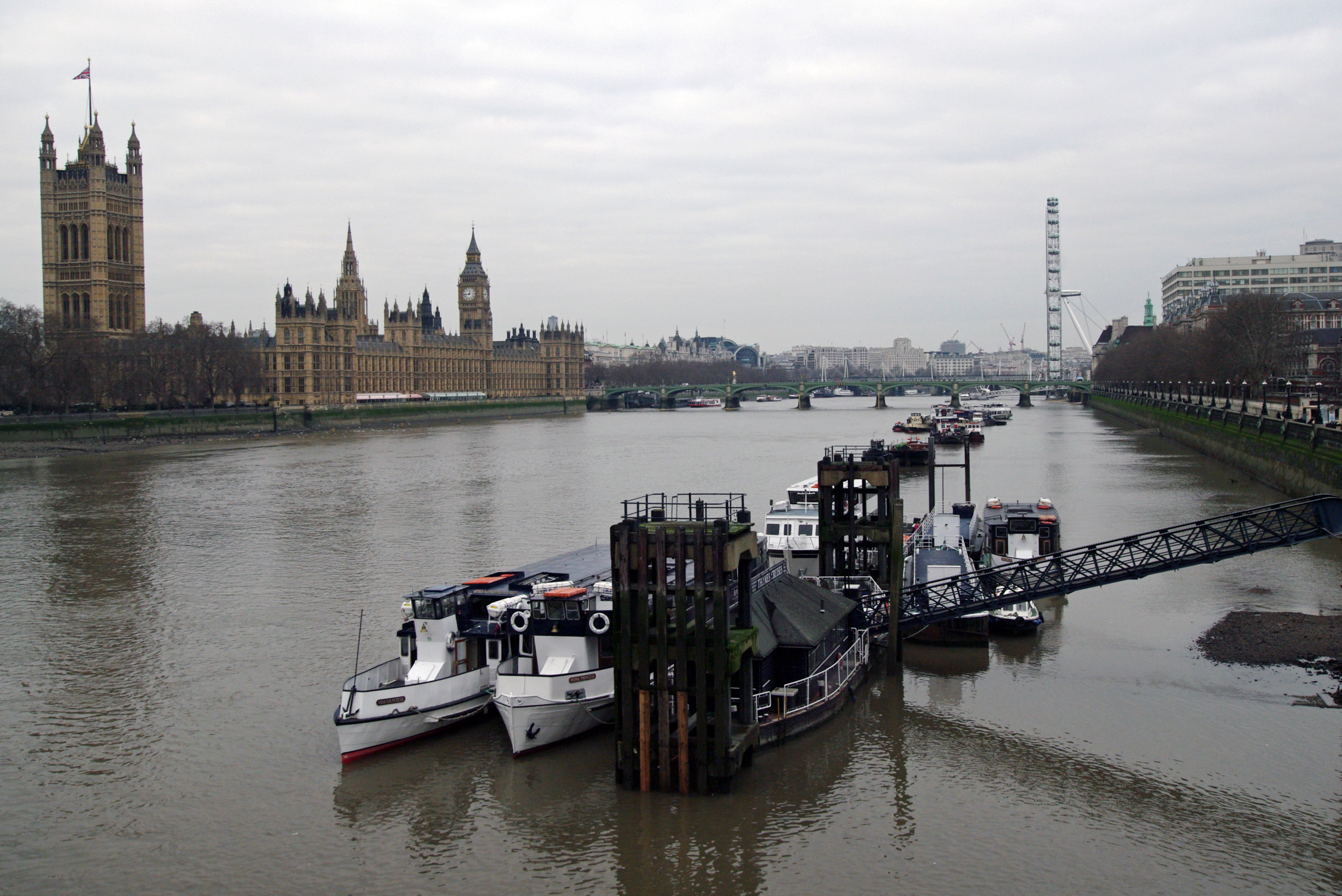 Lambeth Pier on London on the River Thames as seen from Lambeth Bridge. In the background the Palace of Westminster and the London Eye.